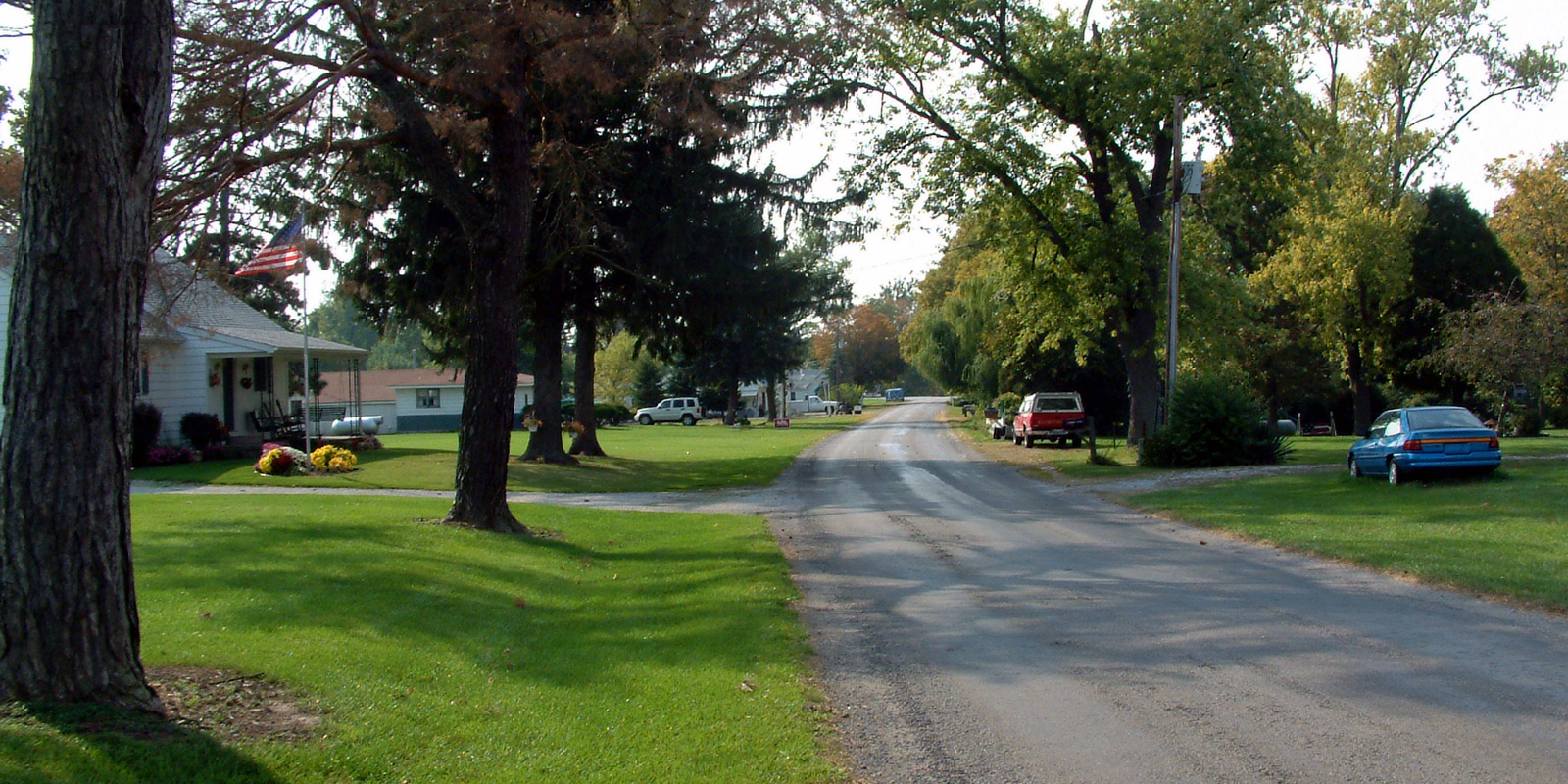 Looking west along Pine Street in the town of Green Hill in Warren County, Indiana.